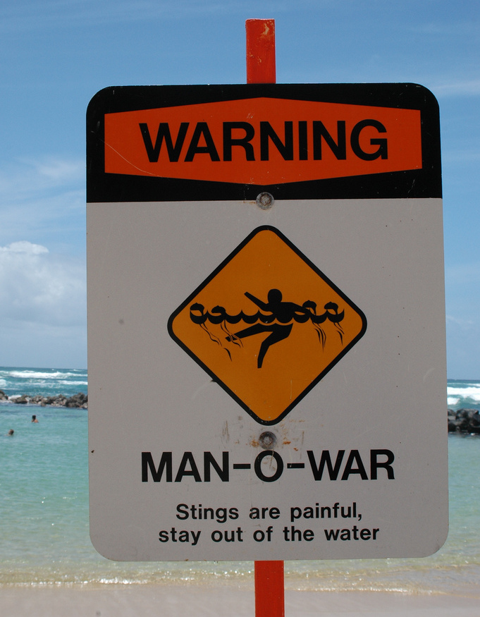 Warning sign for Man-O-War (Physalia physalis)